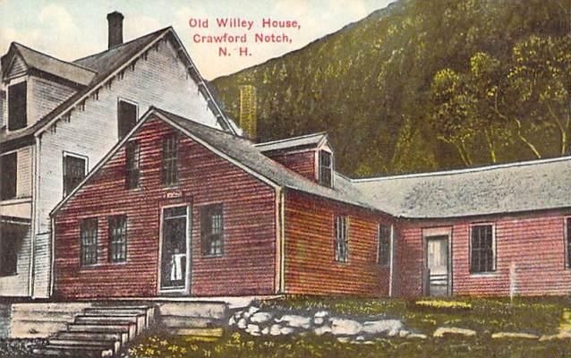 Old Willey House, Crawford Notch, New Hampshire. Built in 1793 as a public house on the Coös Road, it burned in 1898. On August 28, 1826, Samuel Willey, Jr., together with his wife, five children and two hired men, perished nearby in a rock slide.